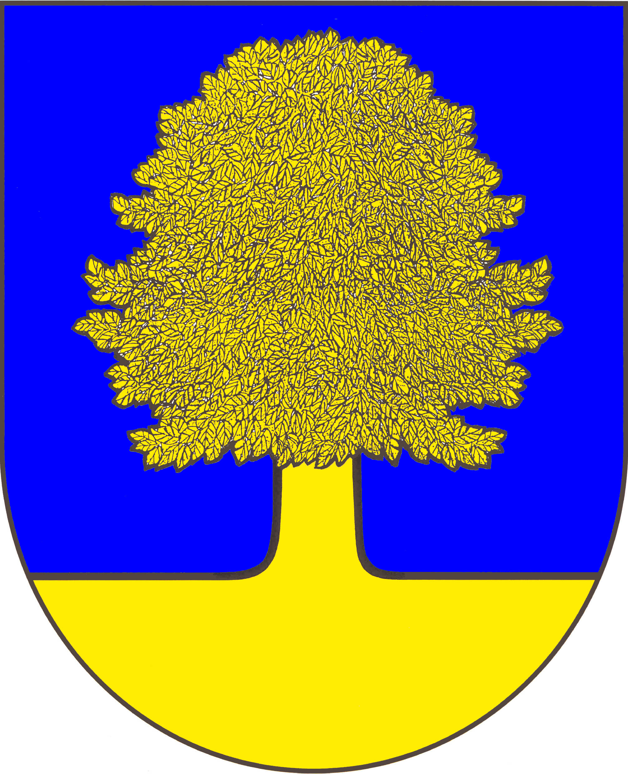 Municipal coat of arms of Bukovina nad Labem village, Pardubice District, Czech Republic.